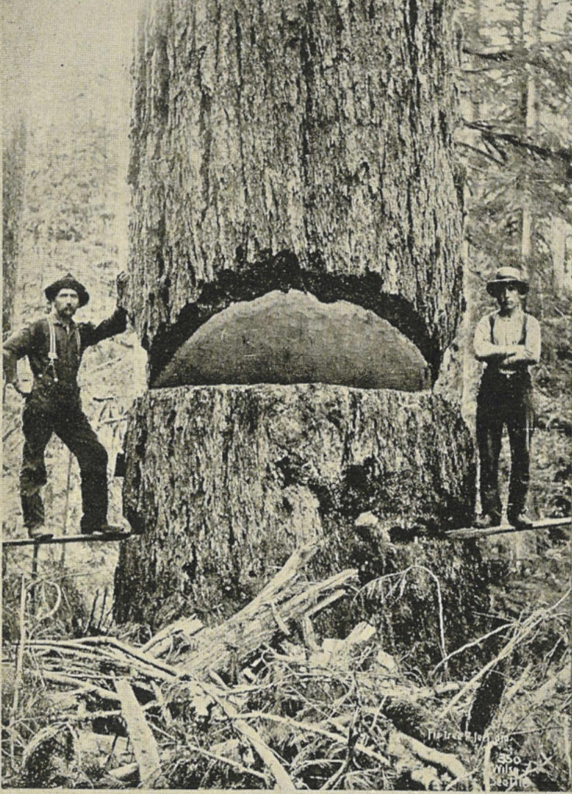 Photo from brochure Seattle and the Orient. "A Washington Fir 9 Feet in Diameter". Lettering at the lower right of the photo (where photo credits often go in this pamphlet) appears to read "Fir tree 9 feet dia. / 350 / Wilse / Seattle". ("Wilse" is not entirely clear here, but is on other photos in the brochure.)